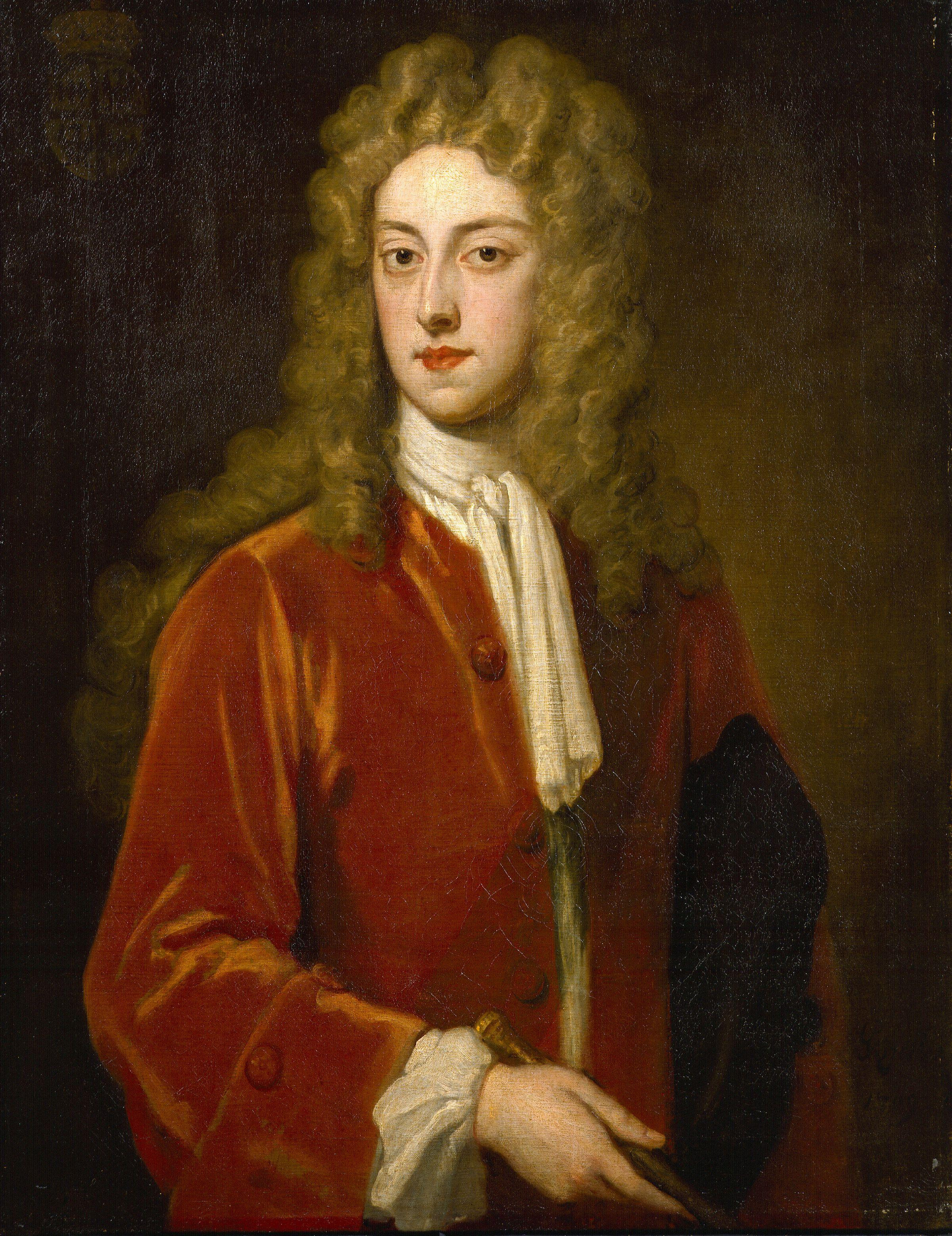 John Montagu, 2nd Duke of Montagu, by Sir Godfrey Kneller, Bt (died 1723), given to the National Portrait Gallery, London in 1945. All images in this batch have been confirmed as author died before 1939 according to the official death date listed by the NPG.